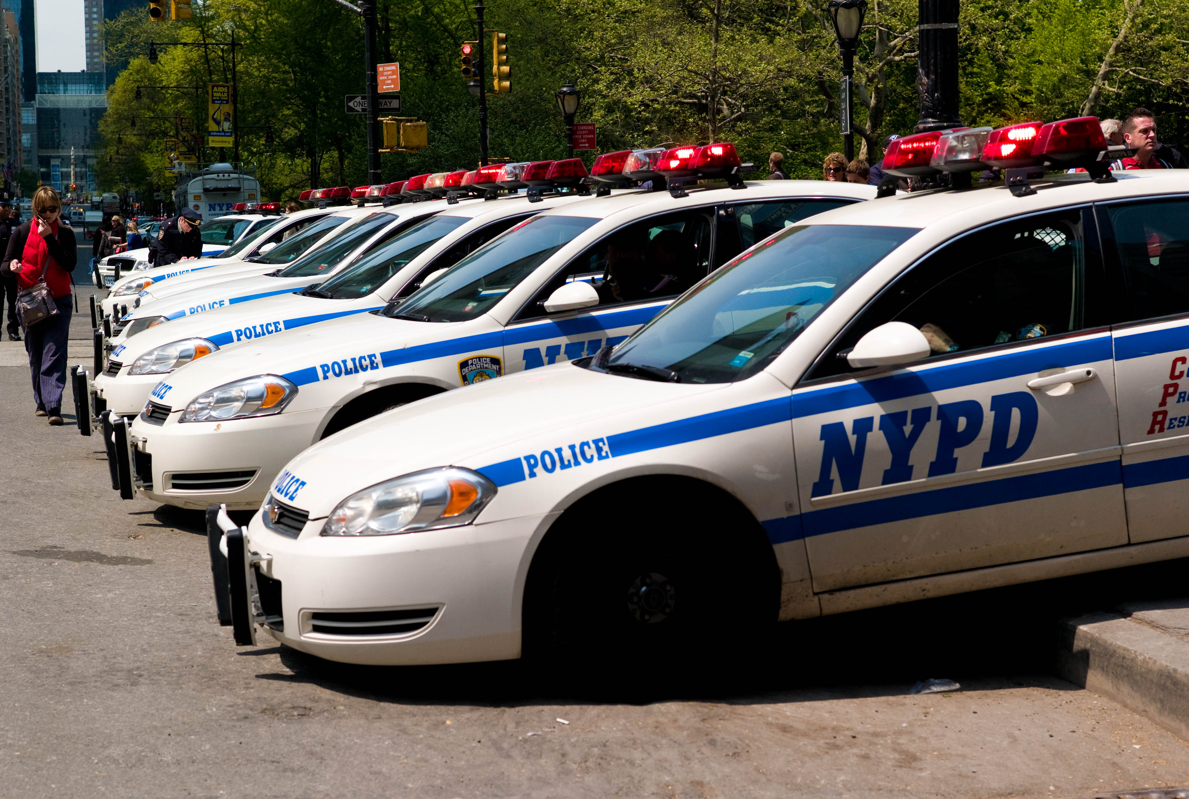 NYPD cars